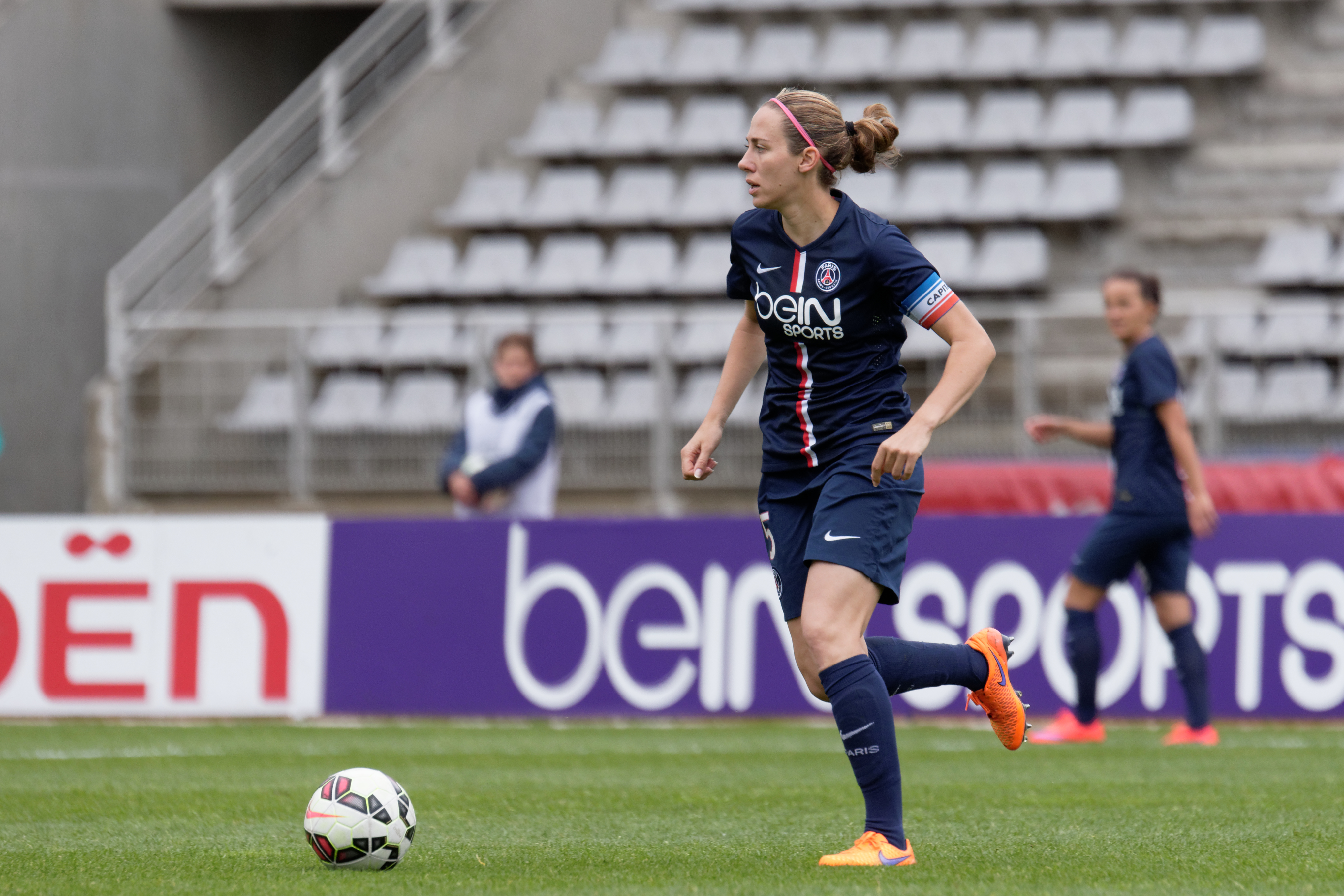 PSG vs Rodez, 3rd May 2015.